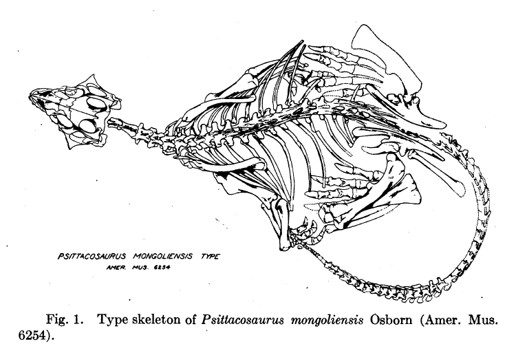 Type specimen of Psittacosaurus mongoliensis